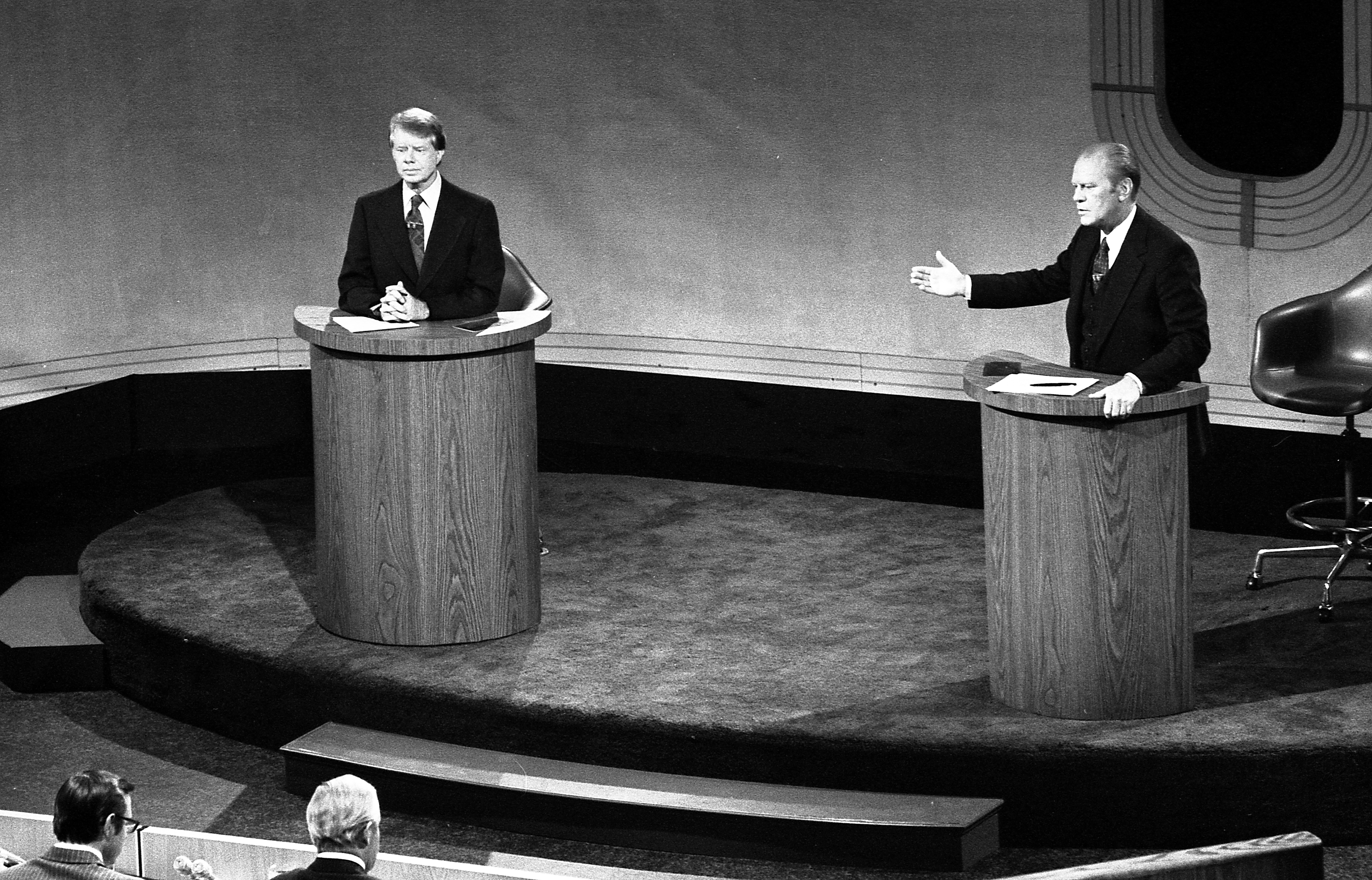 President Gerald Ford and Jimmy Carter meet at the Walnut Street Theater in Philadelphia to debate domestic policy during the first of the three Ford-Carter Debates.